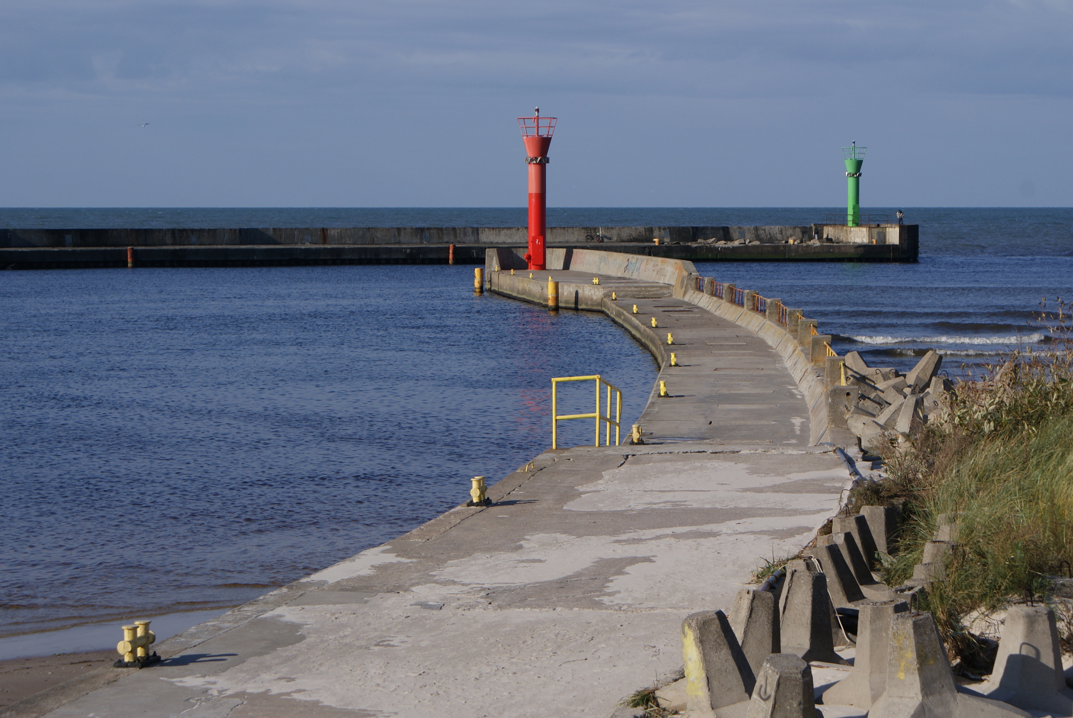 The east breakwater of the Port of Mrzeżyno, Poland